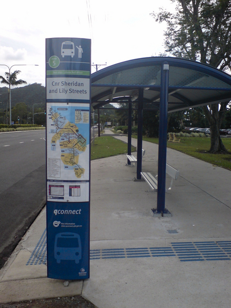 A large Sunbus bus stop, created for large numbers of commuters and its surrounding tourist and sporting venues. The bus stop is located on southbound Sheridan Street, Cairns, between Arthur and Lily Streets.